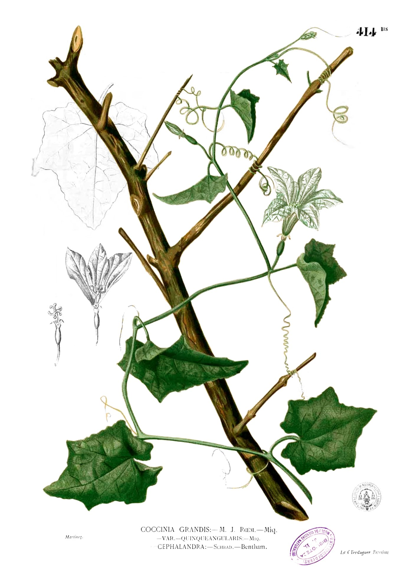 Plate from book